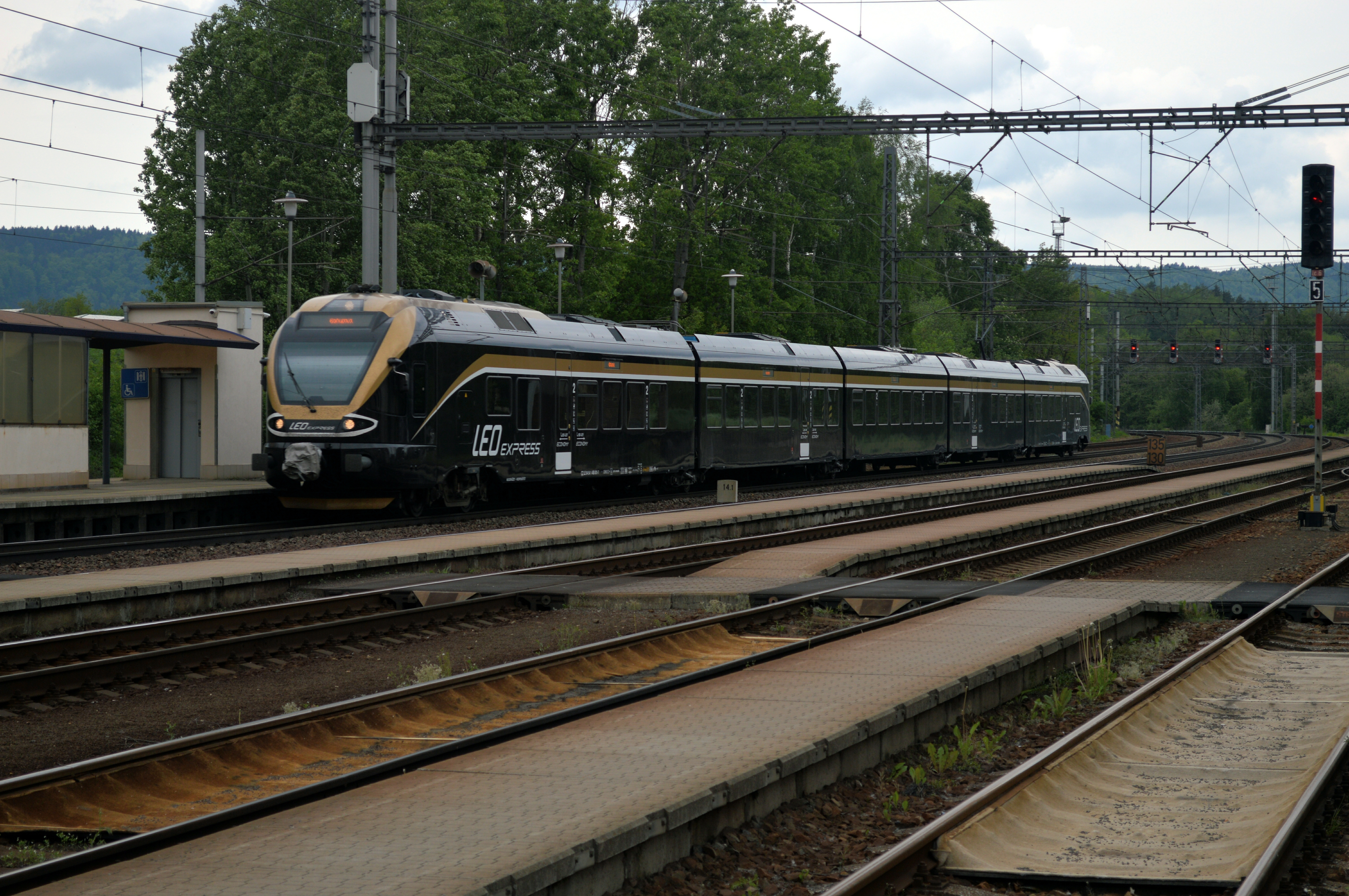 2013 Czech Republic Trip Day Seven Open access carrier LEO Express started up operation in 2010 using 5 Stadler FLIRT 5-car EMU sets. Competing along with both ČD and other private operator RegioJet (Student Agency) on the key Praha to Ostrava route. Seen speeding through Rudoltice v Čechách on 17 May 2013, an unidentified class 480 set on train LE1359, 12:29 Praha hl.n. to Bohumín.